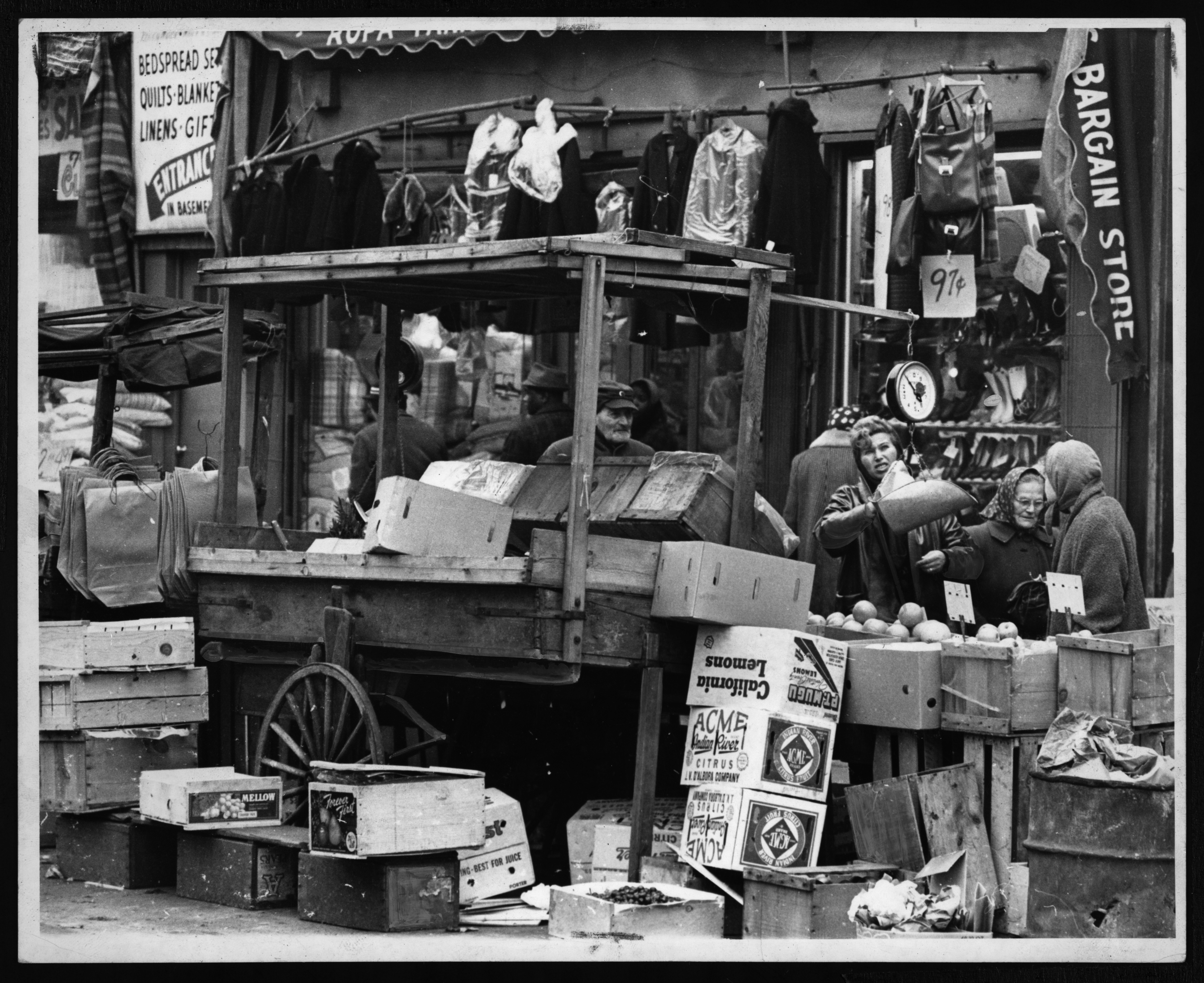 Photograph of street market on Belmont Avenue, Brownsville, Brooklyn